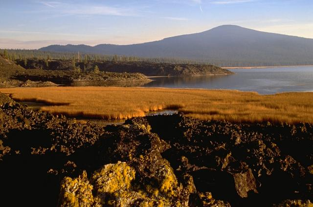 Three small cinder cones oriented along a N-S line produced large andesitic lava flows near Davis Lake.